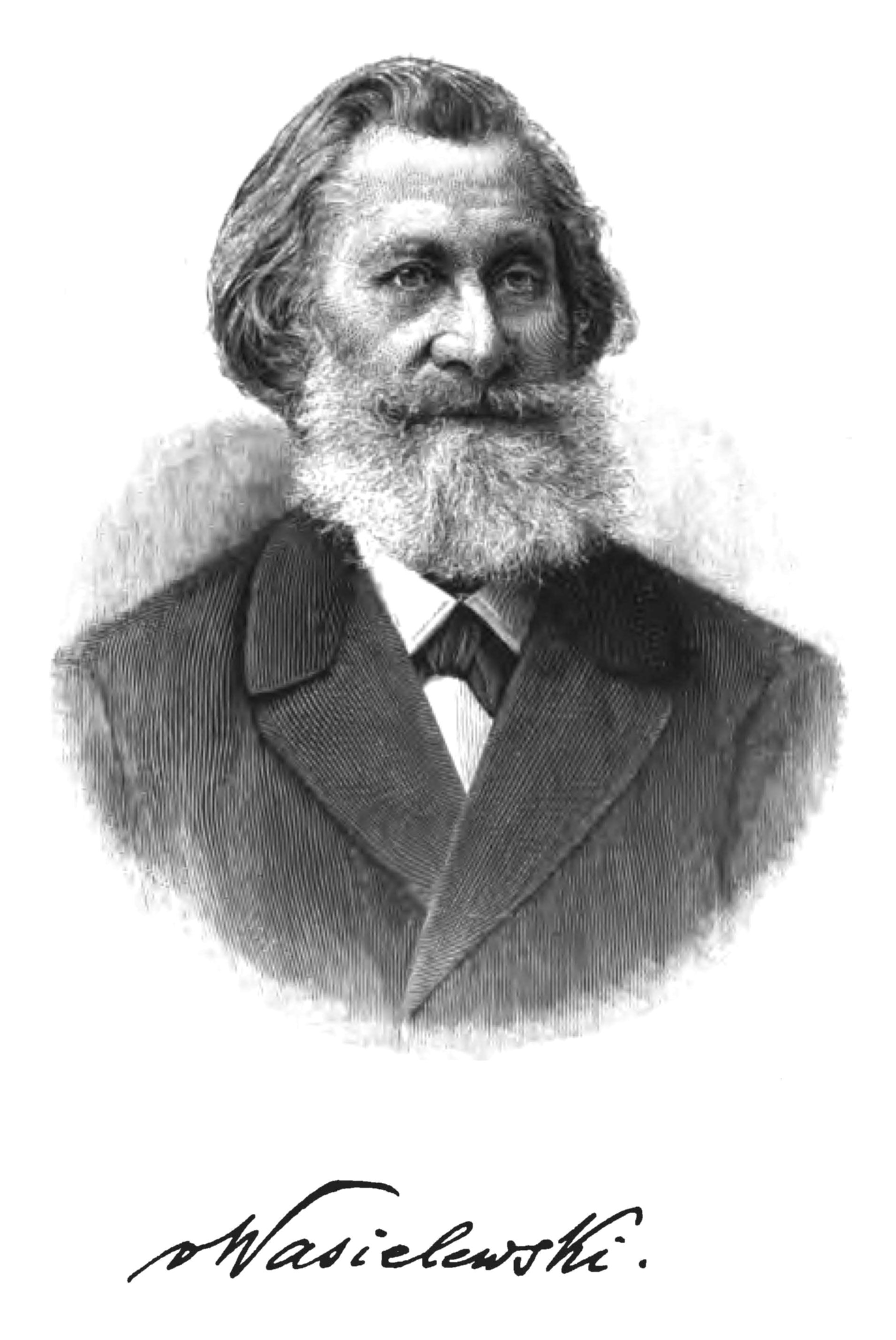 Portrait of the violinist and music historist Wilhelm Joseph von Wasielewski (1822-1896)